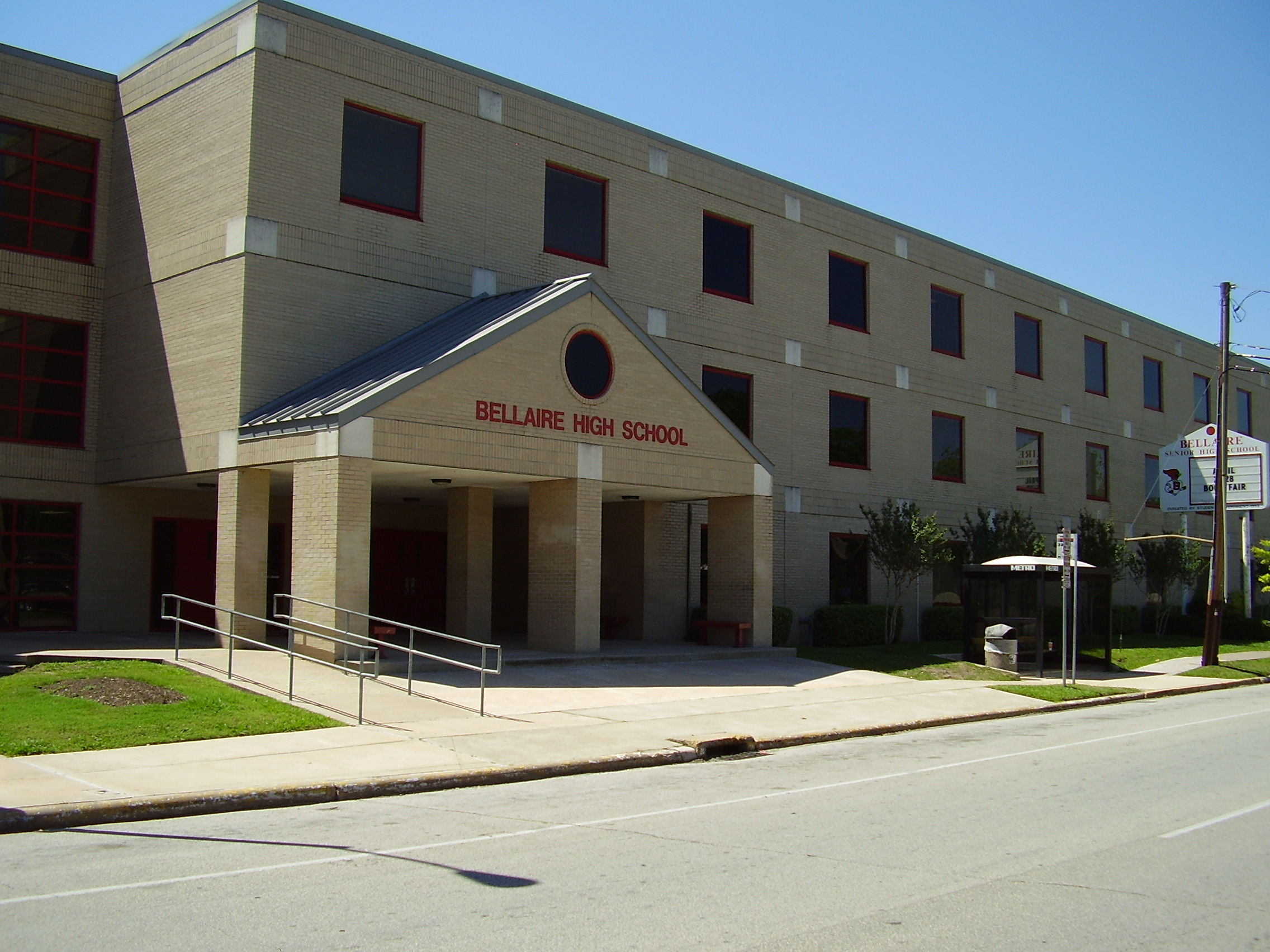 Bellaire High School